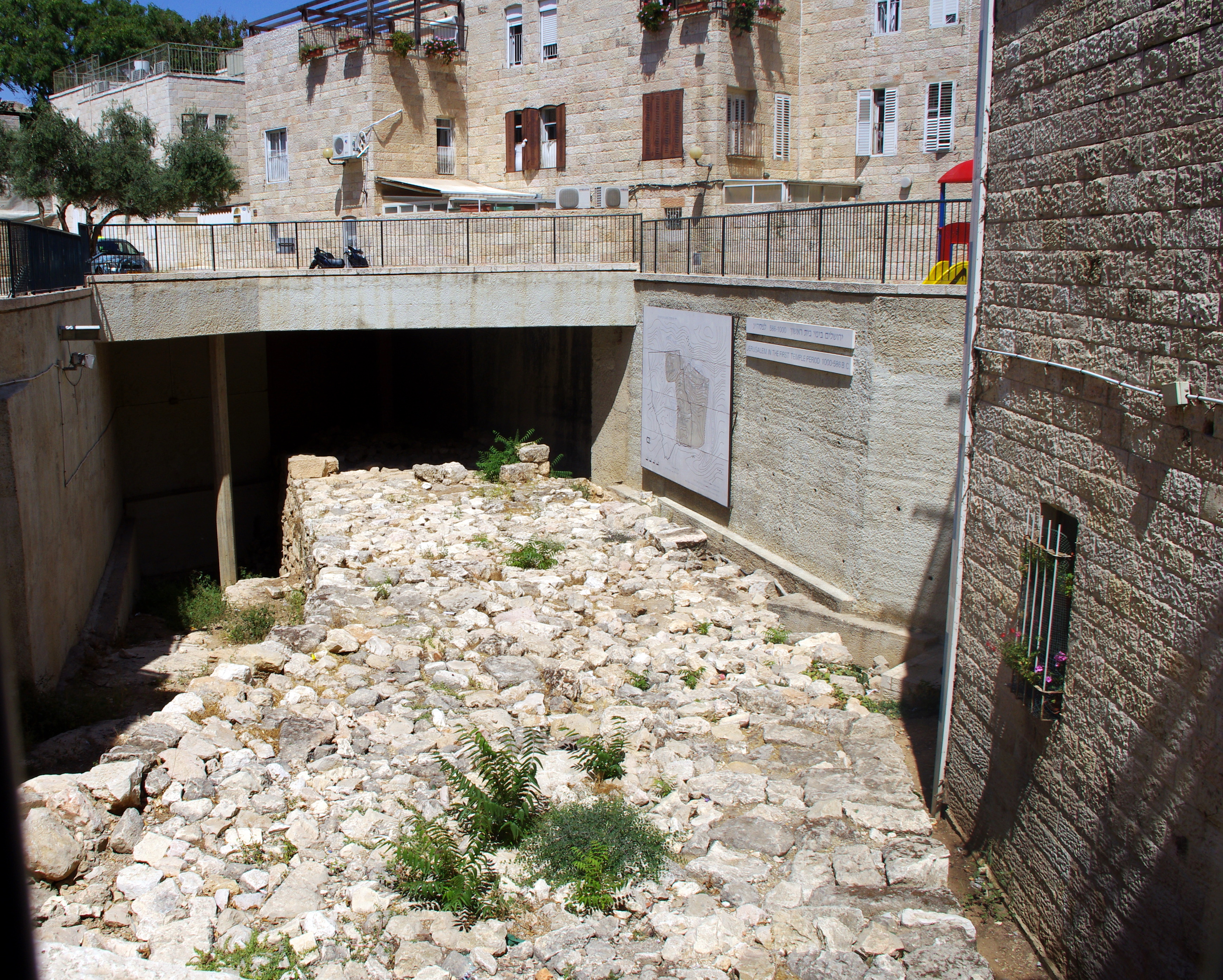 Old City (Jerusalem)